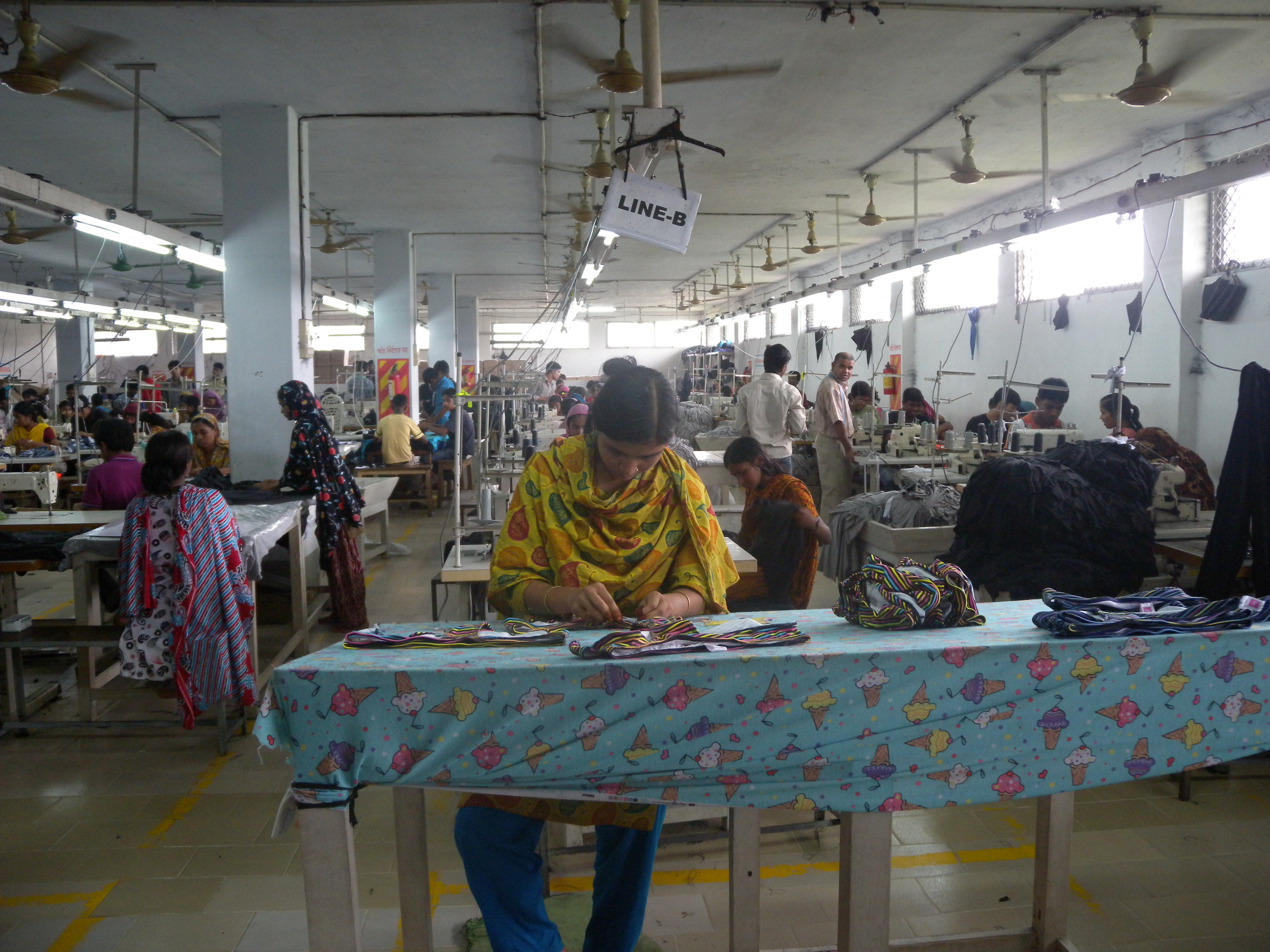 A clothing textile garment factory / assembly line in Bangladesh